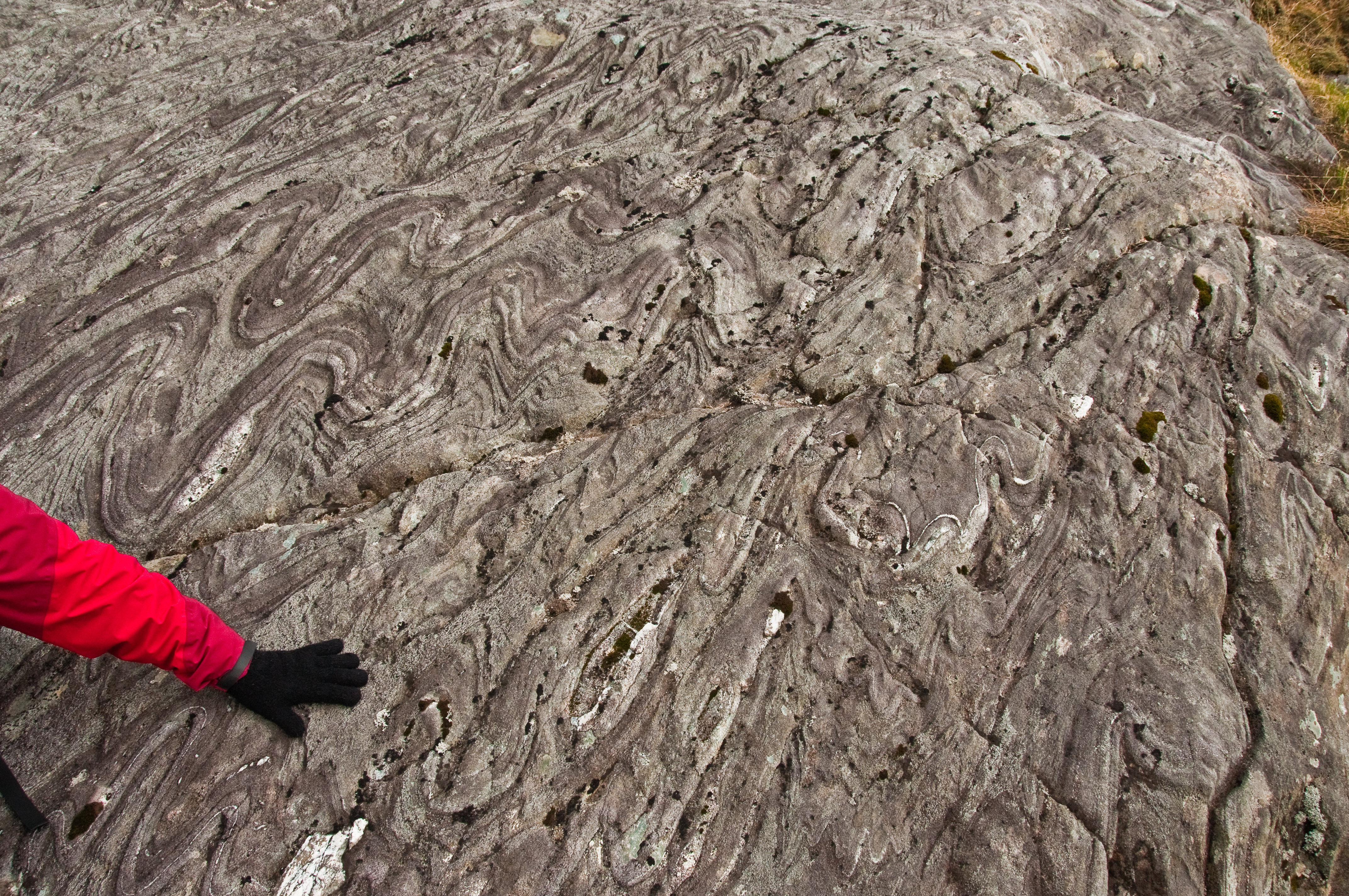 Folded semi-pelitic Morar Schist, part of the Moine Supergroup of Neoproterozoic age, in Glen Meadail, near Inverie in Knoydart, Scotland.